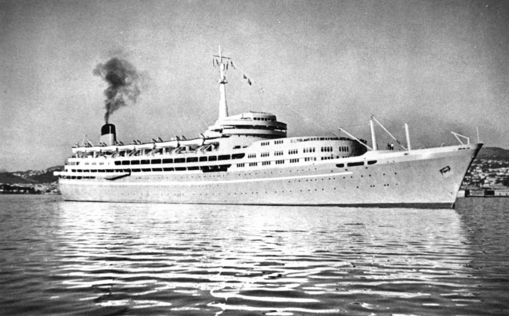 Southern Cross (ship)